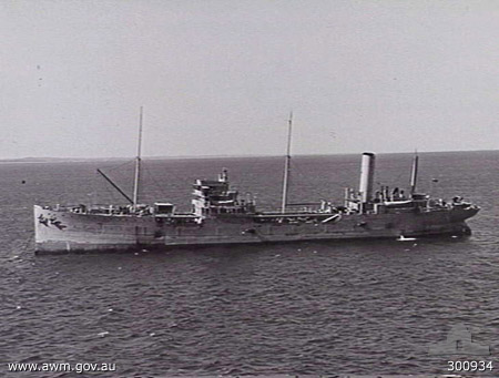 AWM Caption: 1941-09-11. PORT SIDE VIEW OF THE FLEET OILER RAFA KURUMBA. ALTHOUGH NOT COMMISSIONED THE KURUMBA WAS DEFENSIVELY ARMED WITH A 4 INCH GUN ON THE STERN. (NAVAL HISTORICAL COLLECTION)